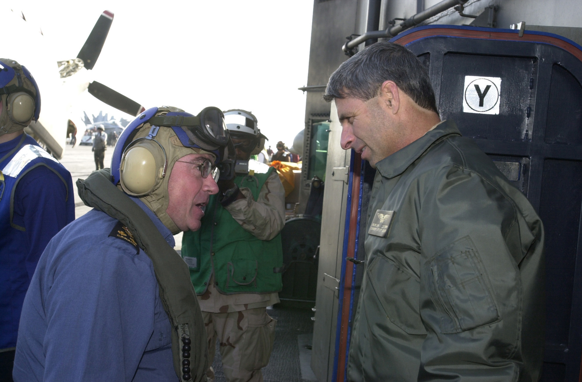 Vice Adm. Ronald Buck, Chief of Maritime Staff, Royal Canadian Navy, is greeted by Rear Adm. Jim Zortman, Commander Carrier Group Seven, (COMCARGRU-7), onboard USS John C. Stennis (CVN 74). Vice Adm. Buck was onboard as part of the coalition forces participating in Operation Enduring Freedom. USS John C. Stennis is currently on a scheduled six-month deployment in support of Operation Enduring Freedom. (U.S. Navy photo by PH1 (AW/SW) Kevin H. Tierney) (Released)